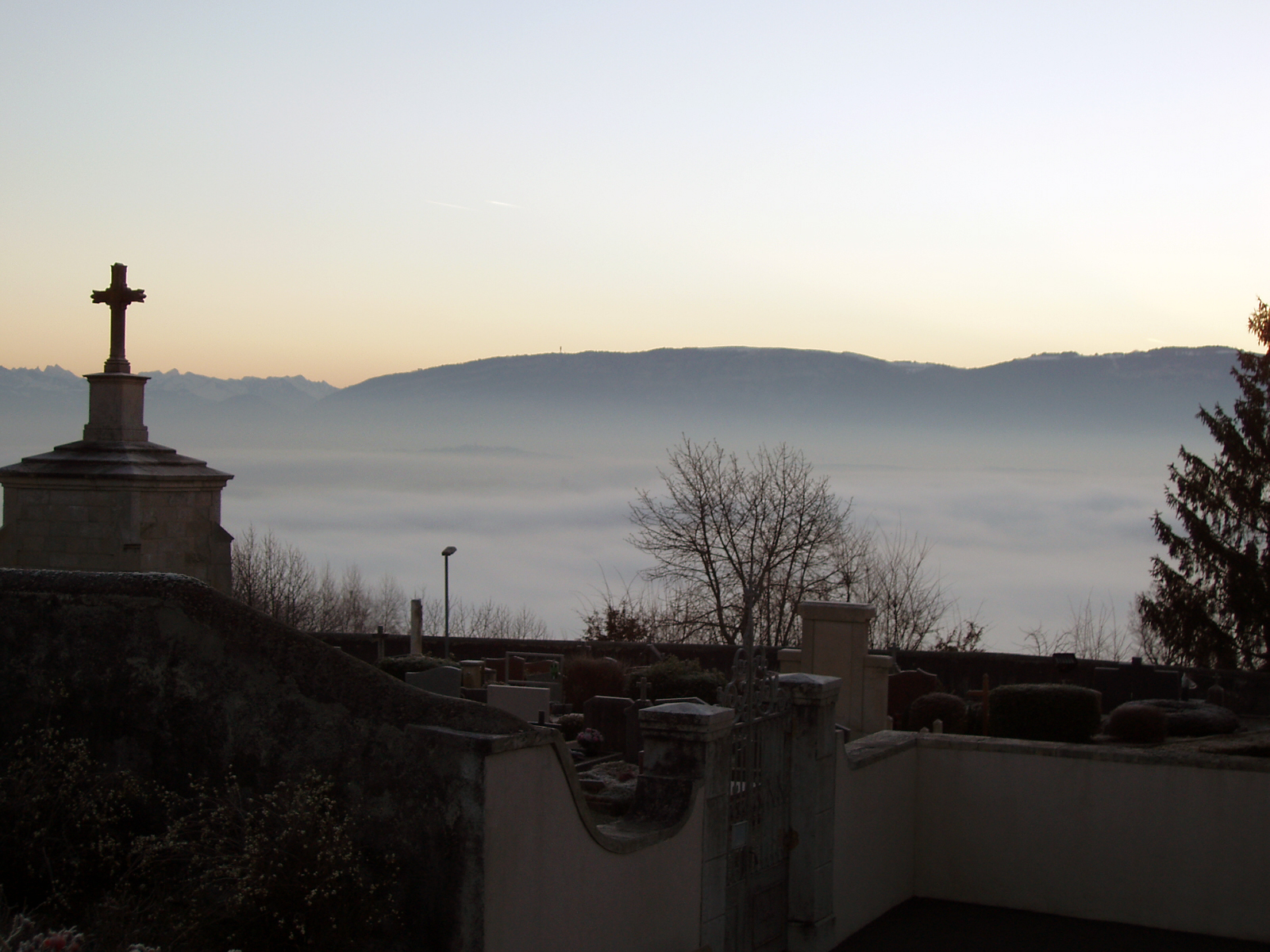 Challex (Ain, France) graveyard